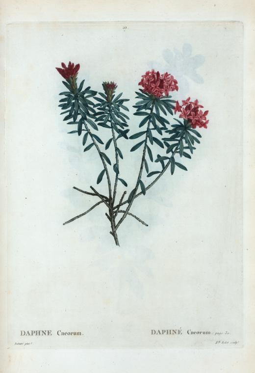 Garland Flower